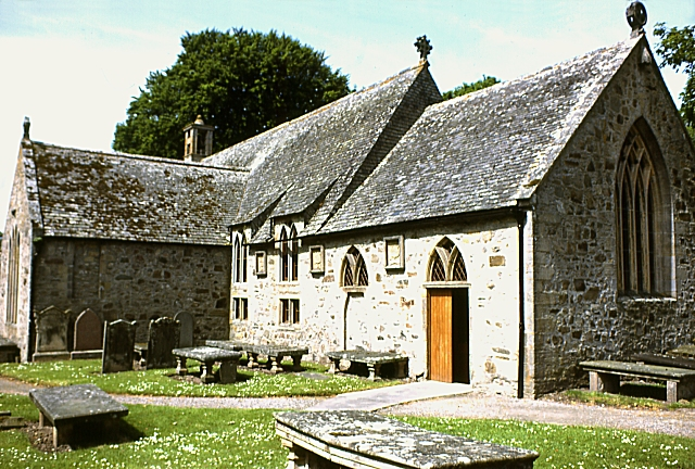 Cullen Auld Kirk. This fine collegiate church contains some fine stone carvings and a Laird's Loft, where the laird could enter by a private stair and sit separated from the rest of the congregation. The church was founded in the 13th-century church, dedicated to St Mary the Virgin, and is the burial place of the 'interior parts' of Queen Elizabeth de Burgh, second wife of Robert the Bruce, who died at Cullen in 1327. A chaplainry was endowed here by Robert in 1327. The church acquired collegiate status in 1543 and the choir is from this date. Other additions include the St Anne's Aisle of 1539, and there is a fine example of a laird's loft of 1602. Other features include a pre-Reformation aumbry or sacrament house, tombs and monuments including one to James, 1st Earl of Seafield, Chancellor of Scotland at the Treaty of Union of 1707. The box pews are of the 17th-century. The churchyard has many interesting and imposing tombs, monuments and gravestones.